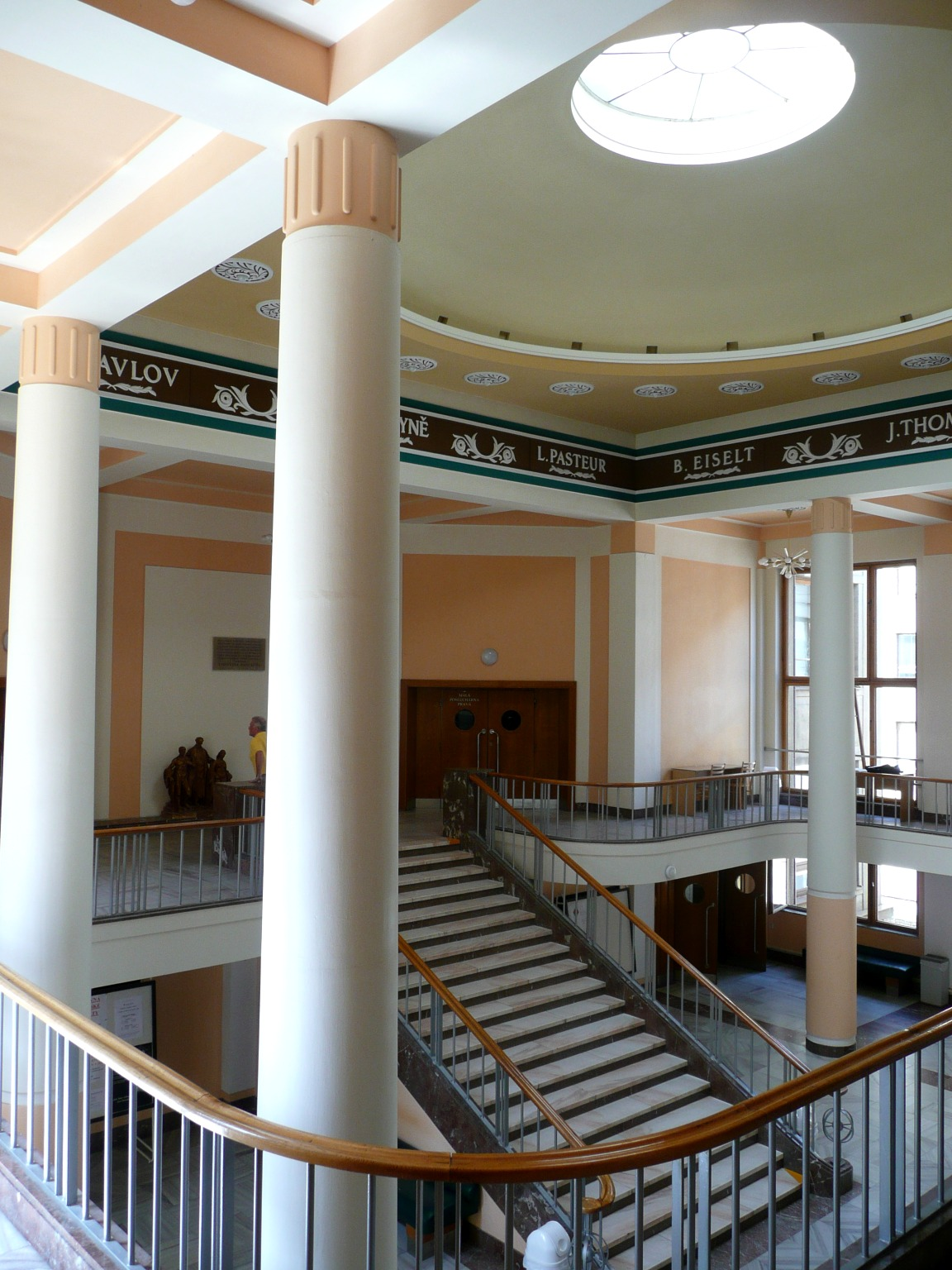 Vestibule of Palacký University (Medical Faculty) in Olomouc, Czech Republic. Architects: Jiří Kroha, Václav Roštlapil, 1950-52